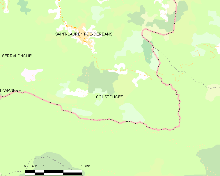 Map of French municipality